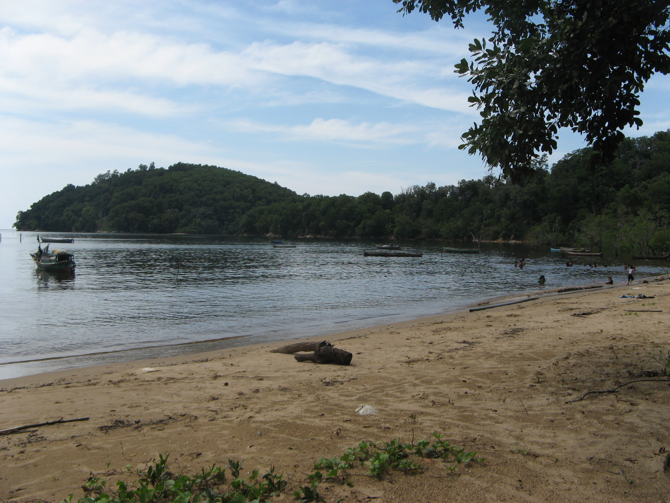 Pulau Datok Beach in Sukadana, West Kalimantan, Indonesia.